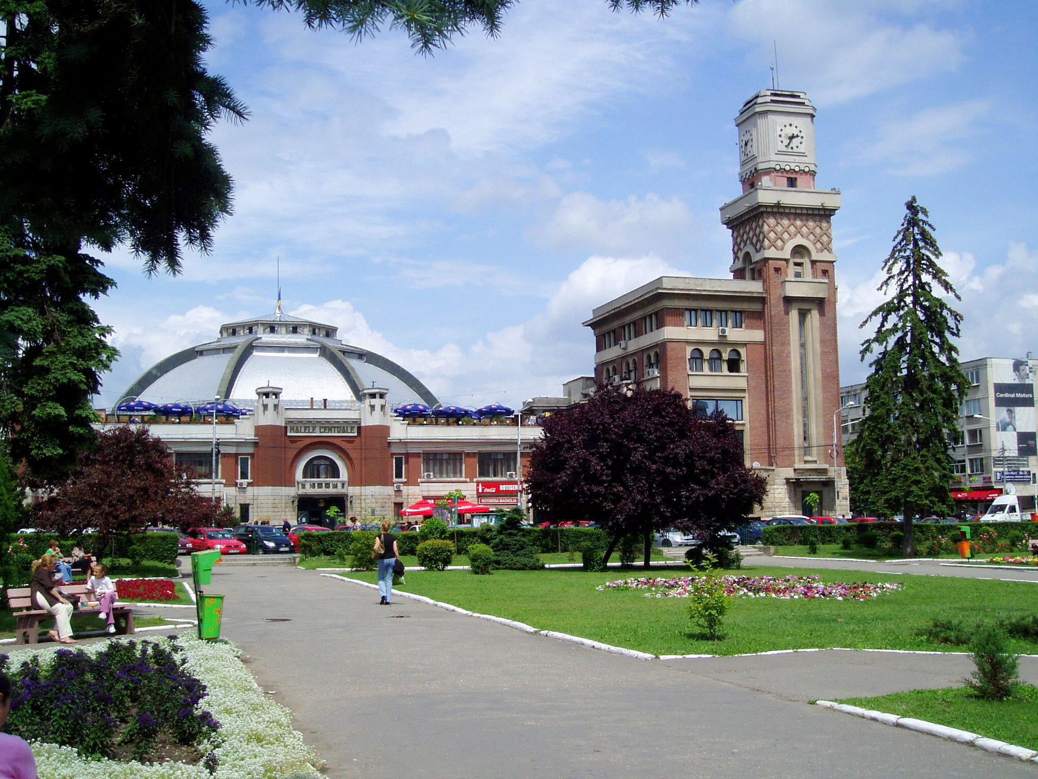 The Central Hall of Ploieşti, Romania. Architect: Toma T. Socolescu. This market place is located in the very heart of the city, strada Emile Zola, Ploieşti, Judeţul Prahova, Romania. It is classified historical monument. We are the only heirs and descendants of Toma T. Socolescu (died in 1960 in Bucharest) and therefore owner of all his intellectual rights.